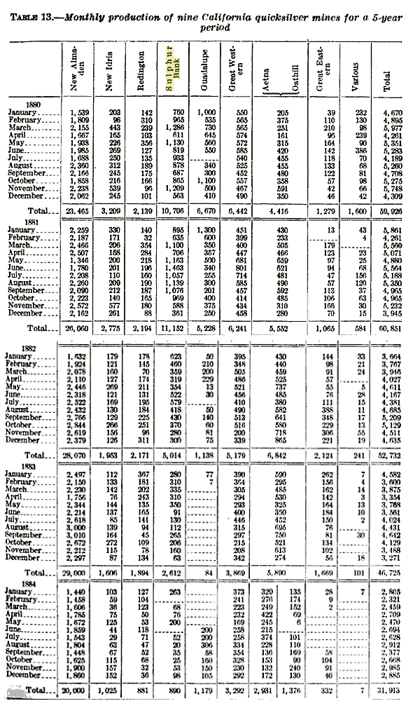 Graphic showing chart of quicksilver production in the 5-year period 1880-1885. Includes New Almaden and New Idria mines as well as Sulphur Bank.